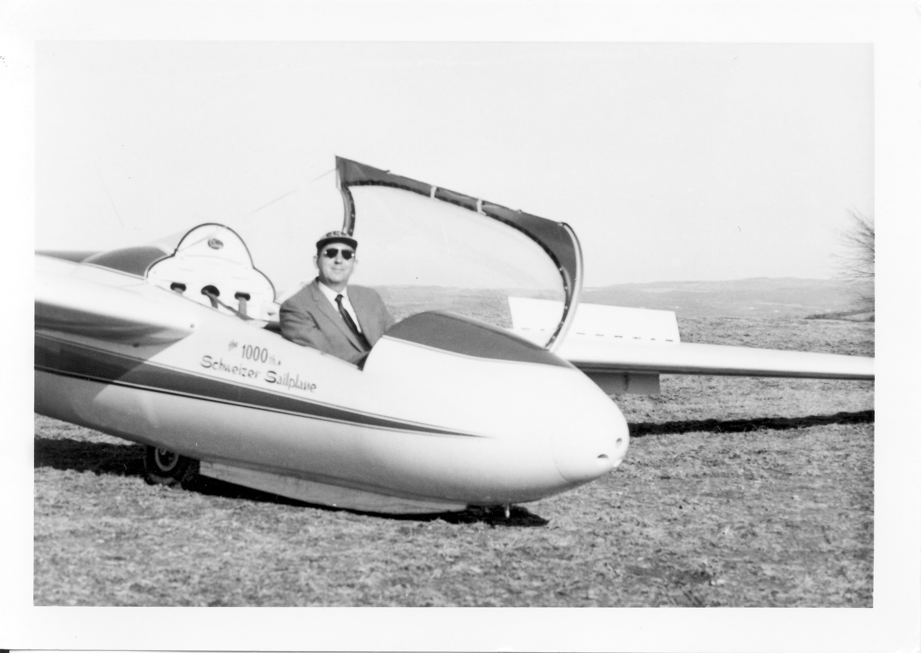 Gerhard W Goetze with the 1,000th Schweizer sailplane, an SGS 2-32, at Harris Hill Soaring Center, Elmira, New York